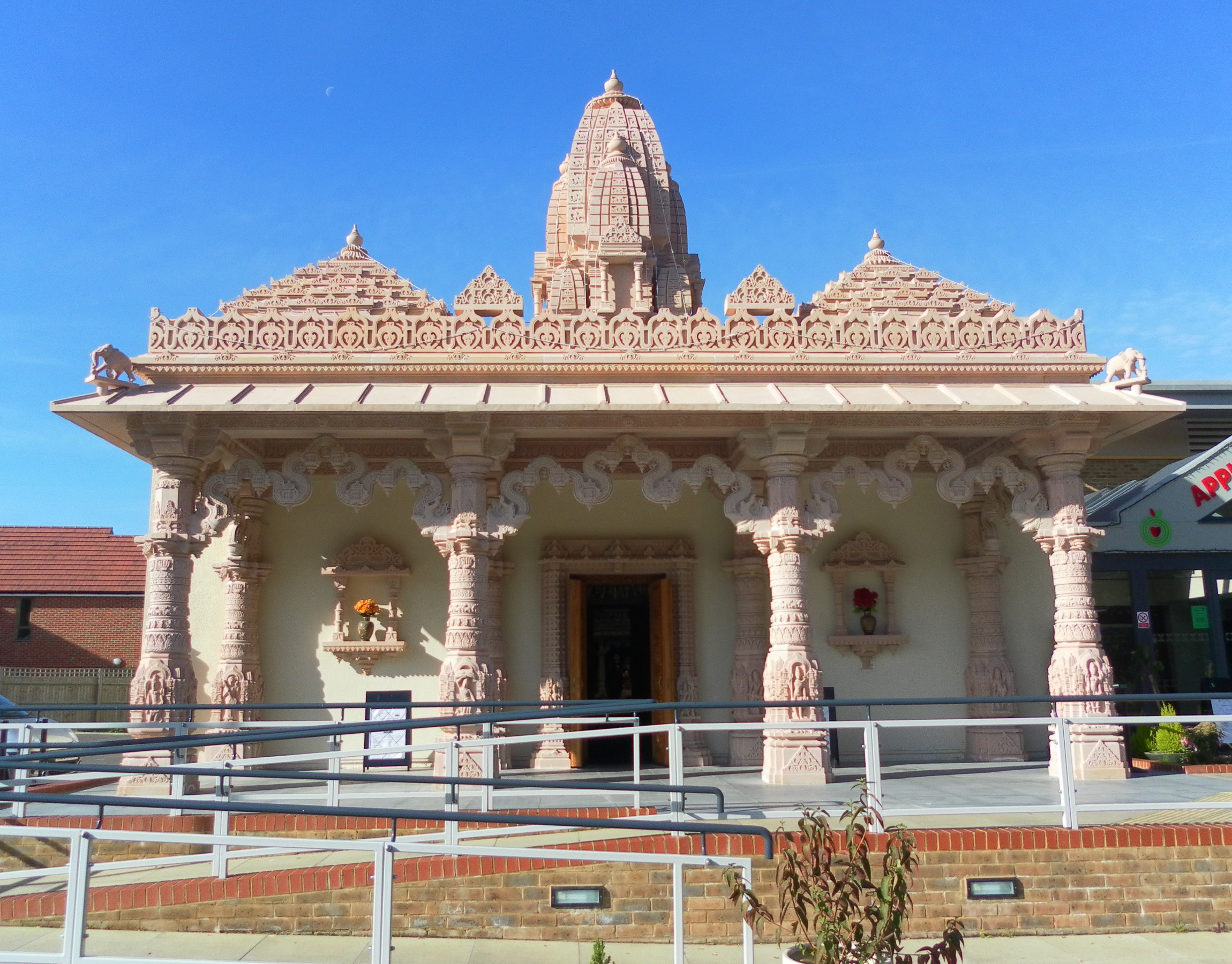 Sanatan Mandir (Gurjar Hindu Temple), Apple Tree Centre, Ifield, Crawley, West Sussex, England. The largest Hindu temple in southeast England, built between 2008 and 2010. A multipurpose community centre (the Apple Tree Centre) is attached.